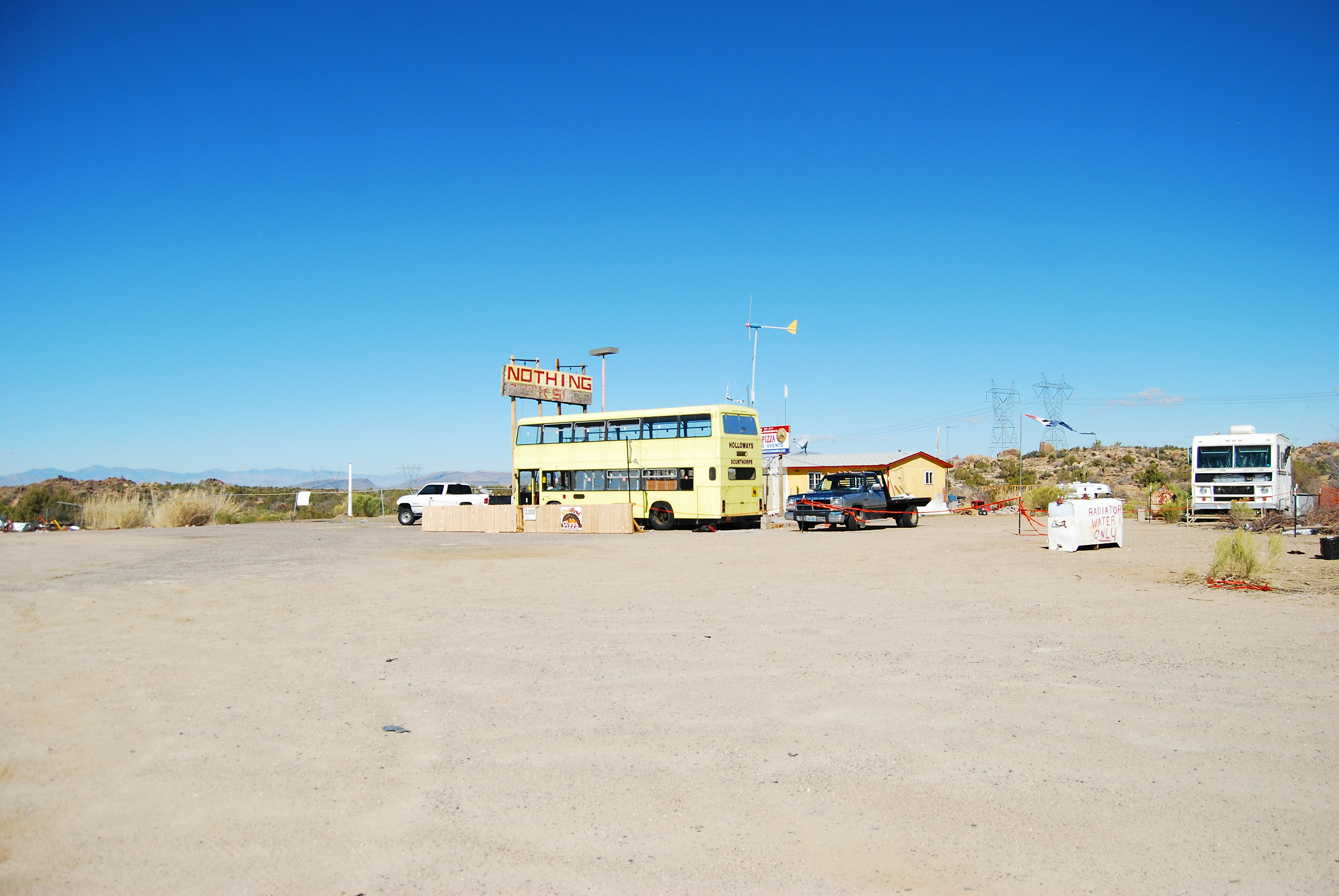 This picture is of Nothing Arizona, in relation to an article about this place on wikipedia.